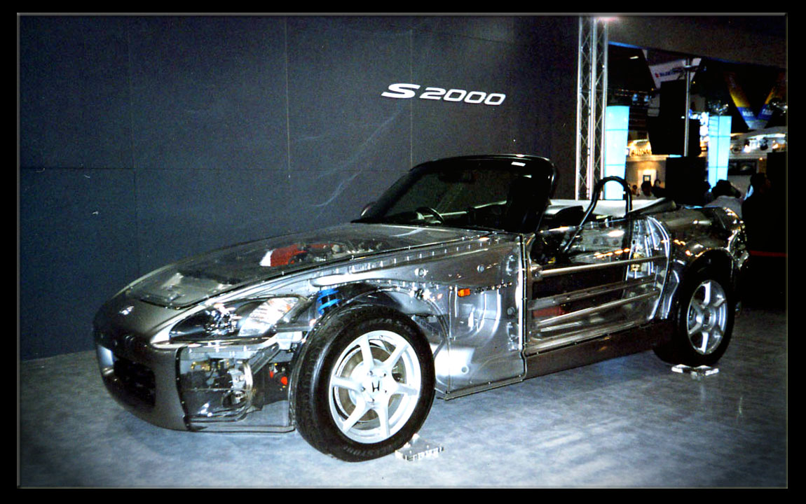 "Transparent" Honda S2000 (Taipei International Motor Show)